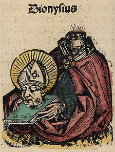 This is a part of a scan of an historical document: Title: Schedelsche Weltchronik or Nuremberg Chronicle